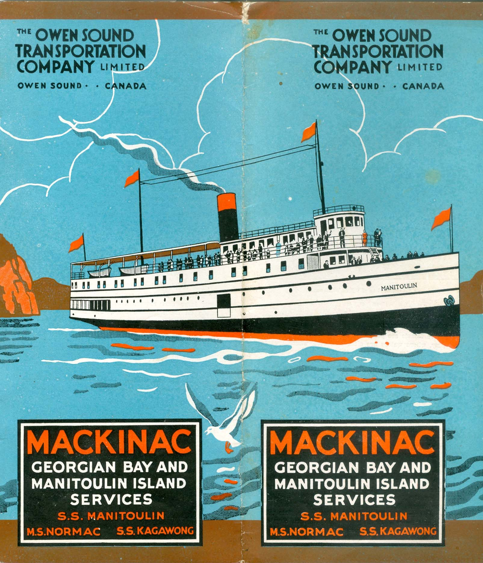 Poster for the Owen Sound Transportation Co. 1931, showing the SS Manitoulin